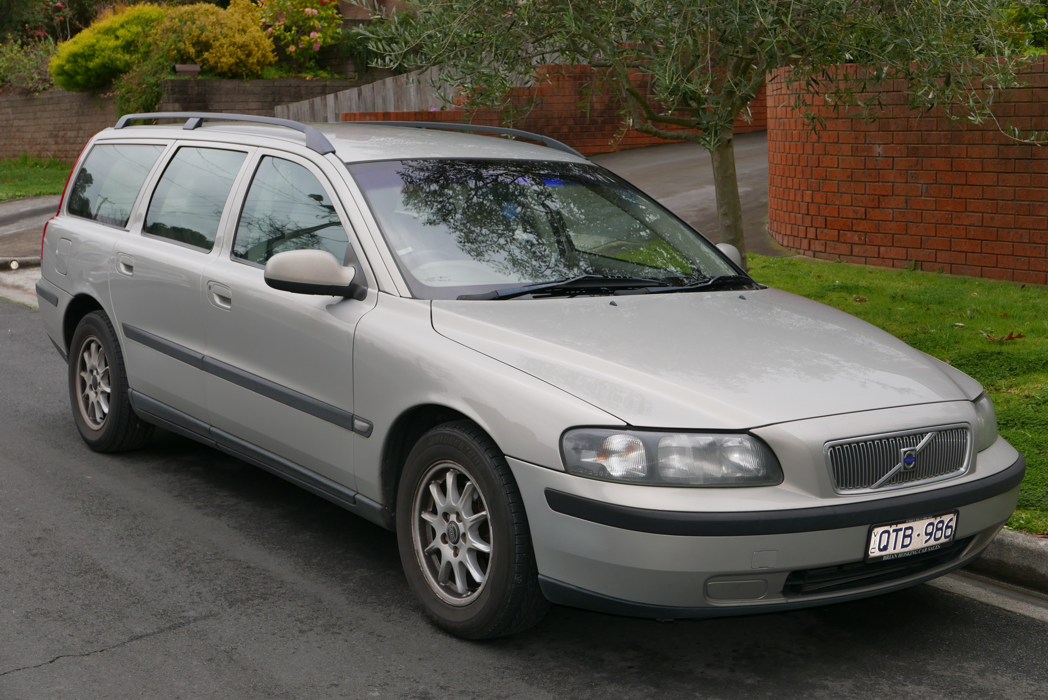 2001 Volvo V70 (MY01) 2.4 20V SE station wagon. Photographed in Doncaster, Victoria, Australia. Vehicle registration enquiry resultsJurisdictionVictoriaRegistrationQTB986Chassis codeYV1SW61P912045925Engine code2182950Compliance date2001-04Year of manufacture2001